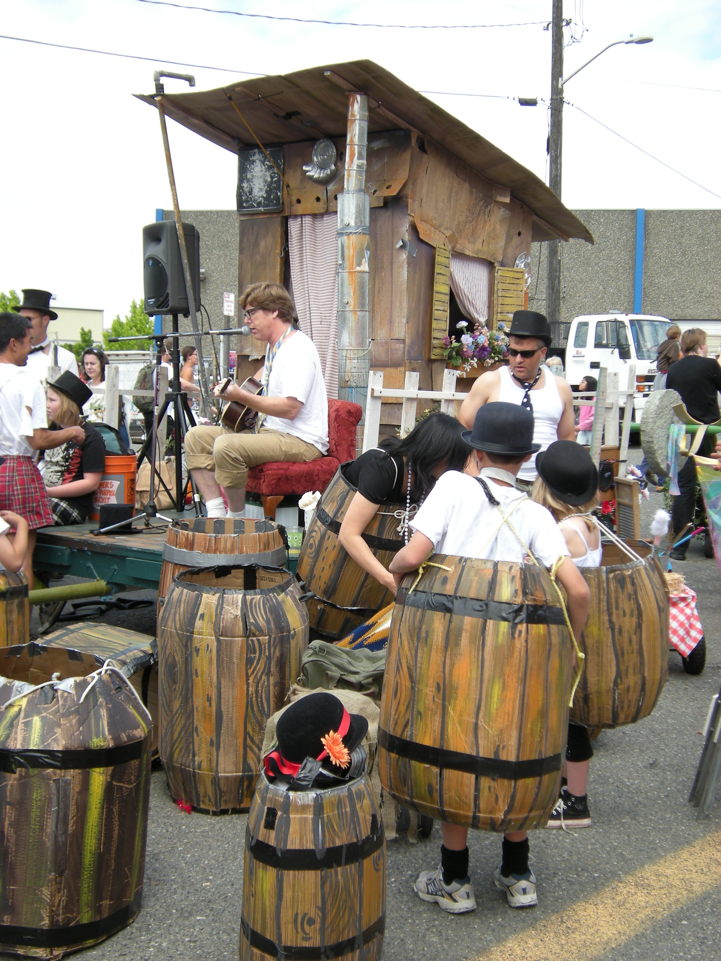 Parade float and contingent referencing the Great Depression, Prohibition, and bootlegging. Summer Solstice Parade, Fremont, Seattle, Washington.